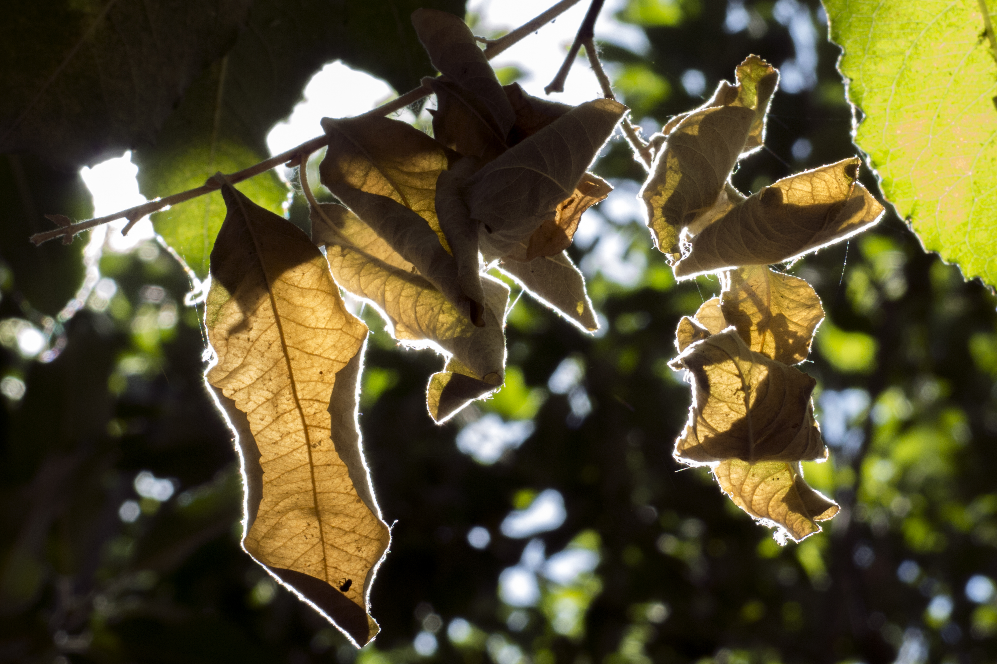 A leaf is an organ of a vascular plant and is the principal lateral appendage of the stem.